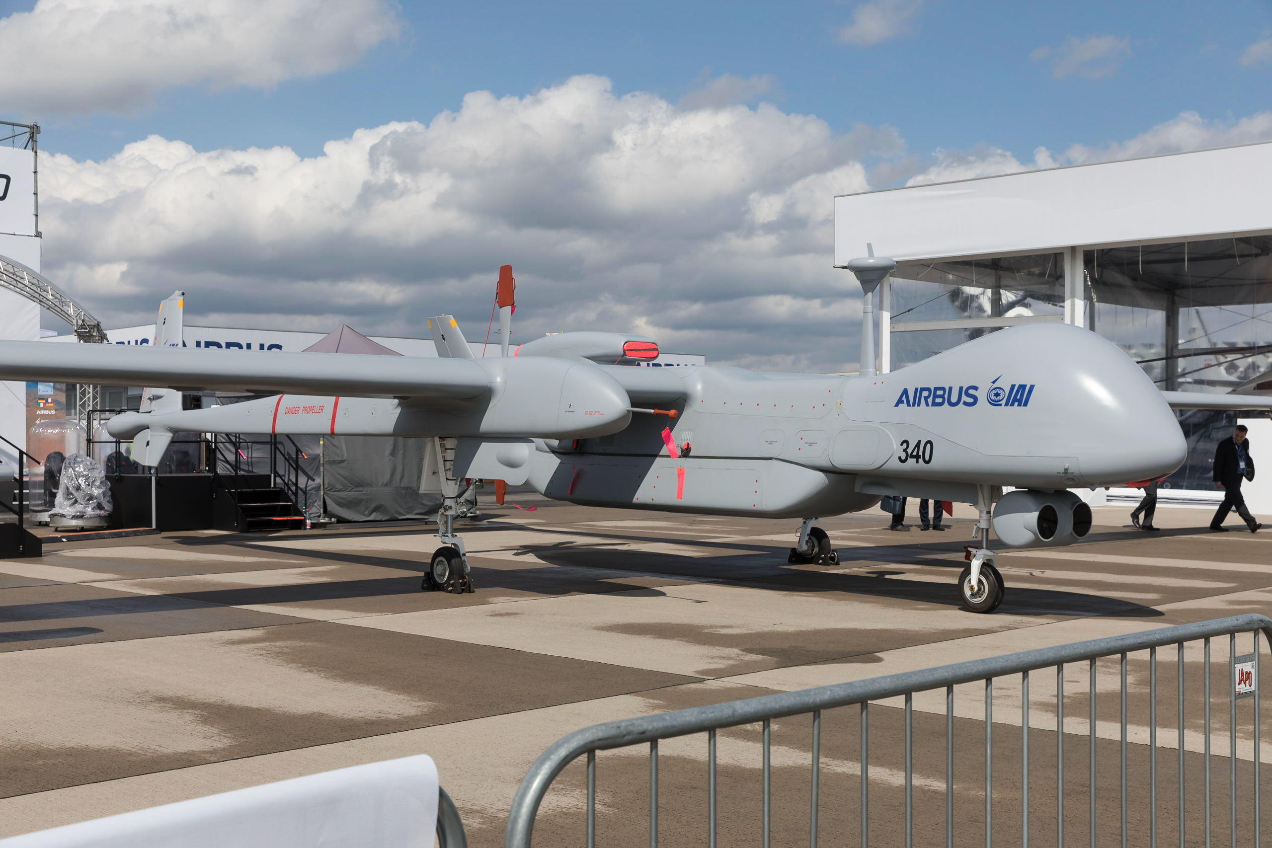 ILA 2018